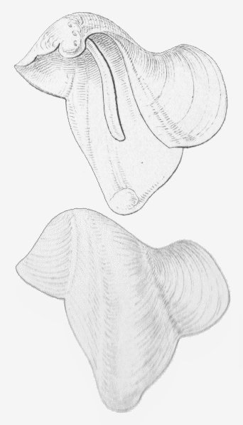 Upper figure: inside of the shell; Lower figure: outside of the shell